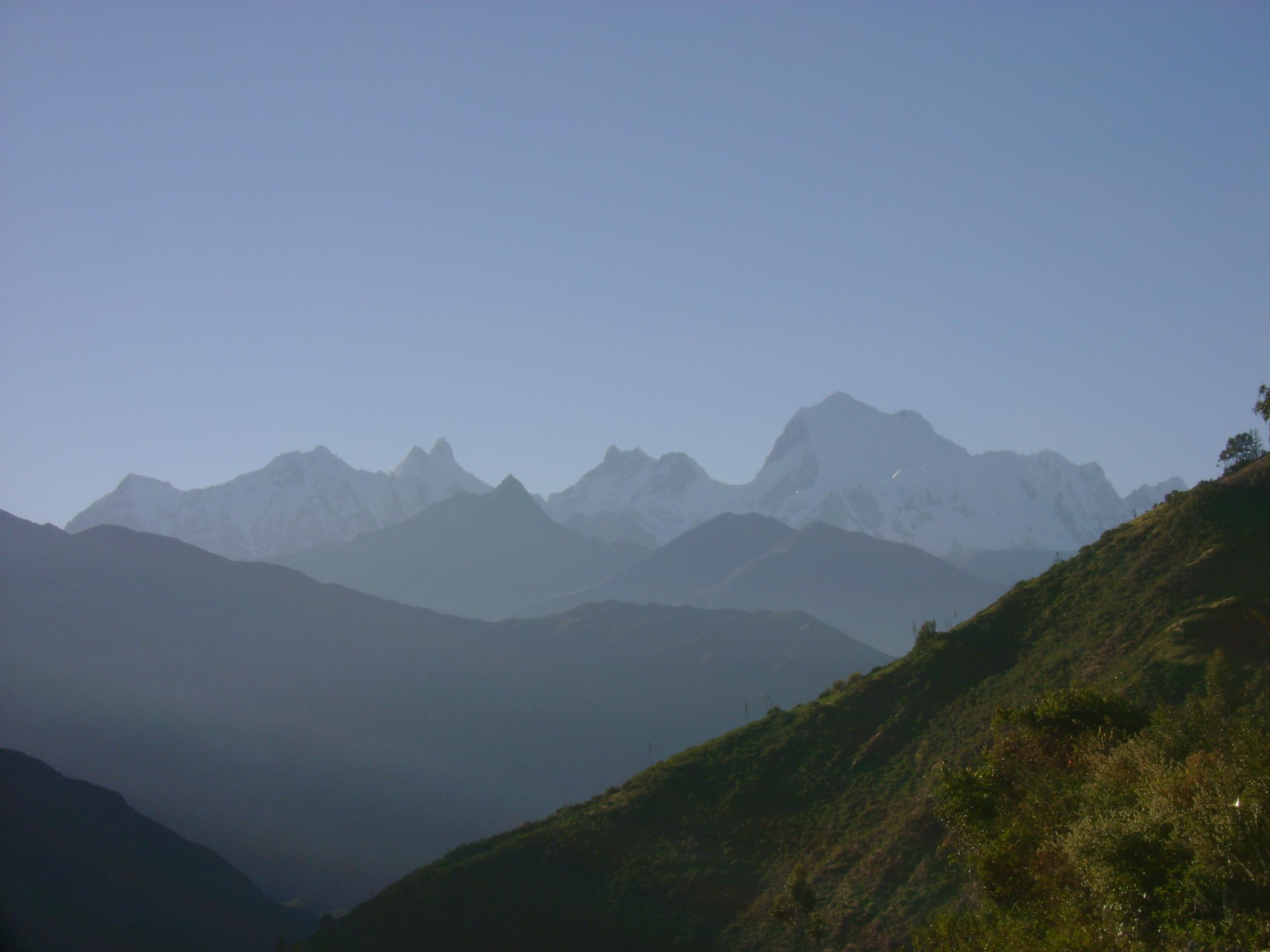 Sunrise in the Cordillera Huayhuash.